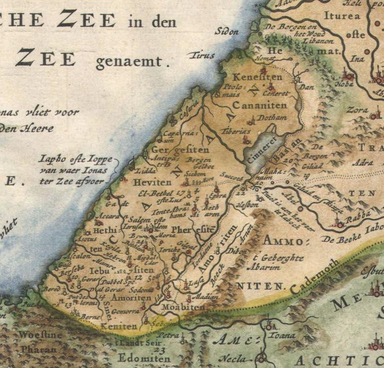 This is a splendid early example of Nicholas Visscher’s important 1657 map of the Holy Land, or as it is titled (in rough translation) “Paradise, or the Garden of Eden. With the Countries circumjacent Inhabited by the Patriarchs. Covers the region between the Mediterranean and the Persian Gulf (including the modern day regions of Israel, Palestine, Jordan Syria, Turkey & Iraq), and features a prominent the Garden of Eden located near the city of Babel ( Babylon ). The beautiful strapwork title along the top of the map is flanked on either side by cartouche scenes from Eden. In the Mediterranean, a sailing ship is being confronted by Jonas’s whale. In the lower left quadrant, a decorative scale of miles is topped by an elderly fisherman – one of Visscher’s marks. The map itself, combining actual and Biblical geography, is stunningly produced. Features the Land of Nod, the Garden of Eden, the Tower of Babel, and other semi-mythical locations. This map was drawn by Visscher as part of a five part map series for inclusion in Abraham van den Broeck’s 1657 Dutch Staten Bible. This is the first edition of this important map series which would become basis for numerous other Biblical maps appearing through the 18th century, including those of Stoopendal , Krul and Maxon.